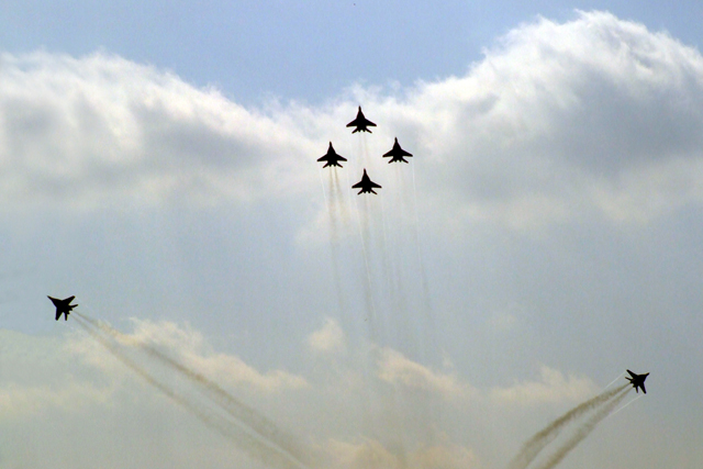 MAKS Airshow-2007. "Strizhi"